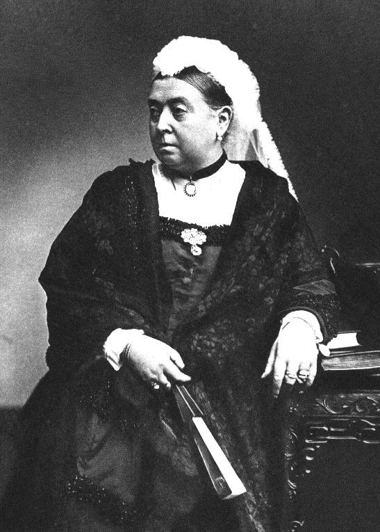 Queen Victoria